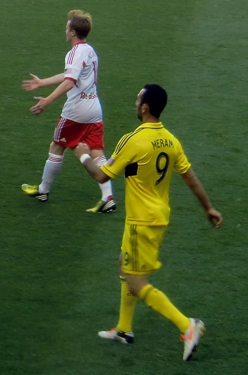 Justin Meram of Columbus Crew with Dax McCarthy of the New York Red Bulls in May 2013